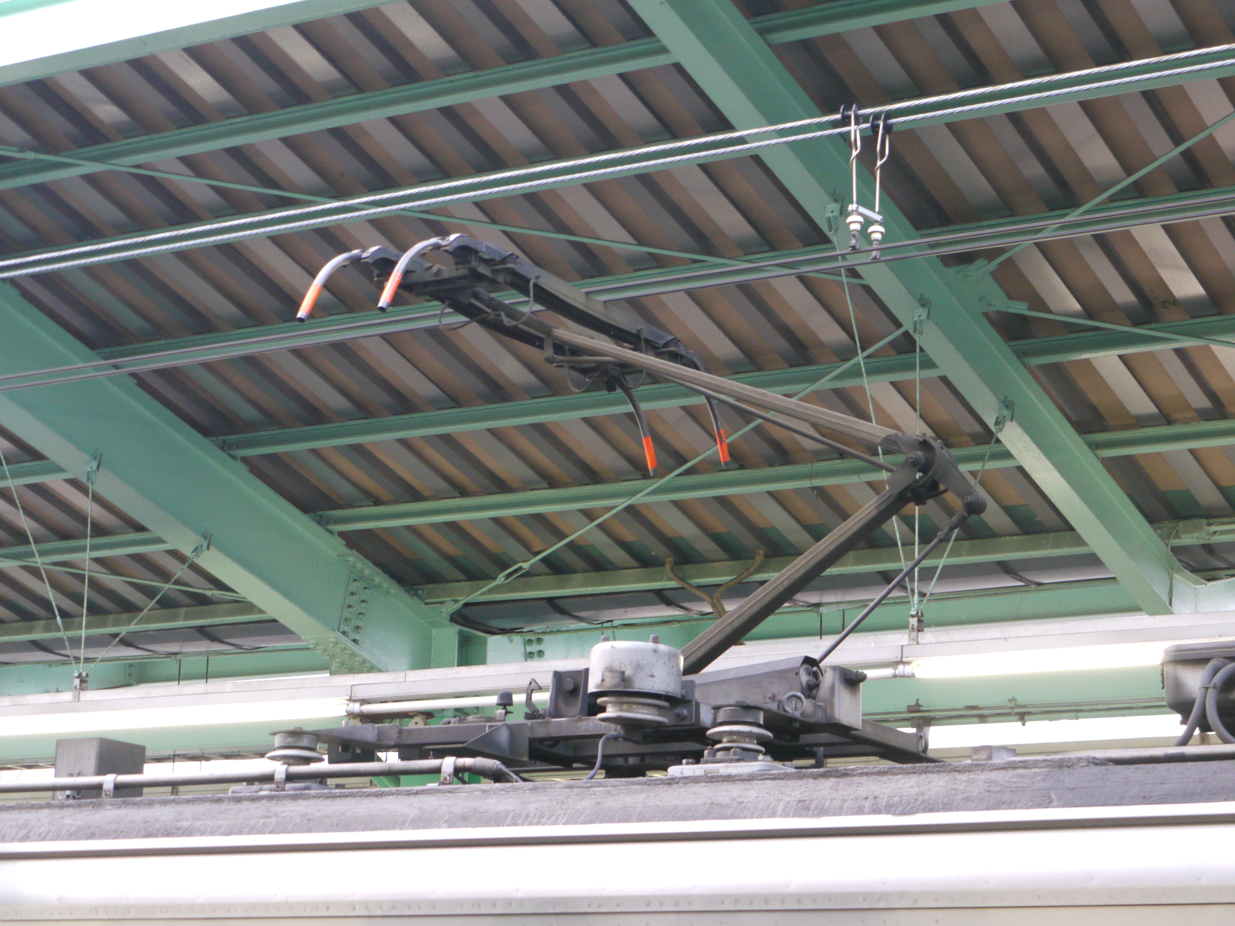 A single arm pantagraph on a Keio 7000